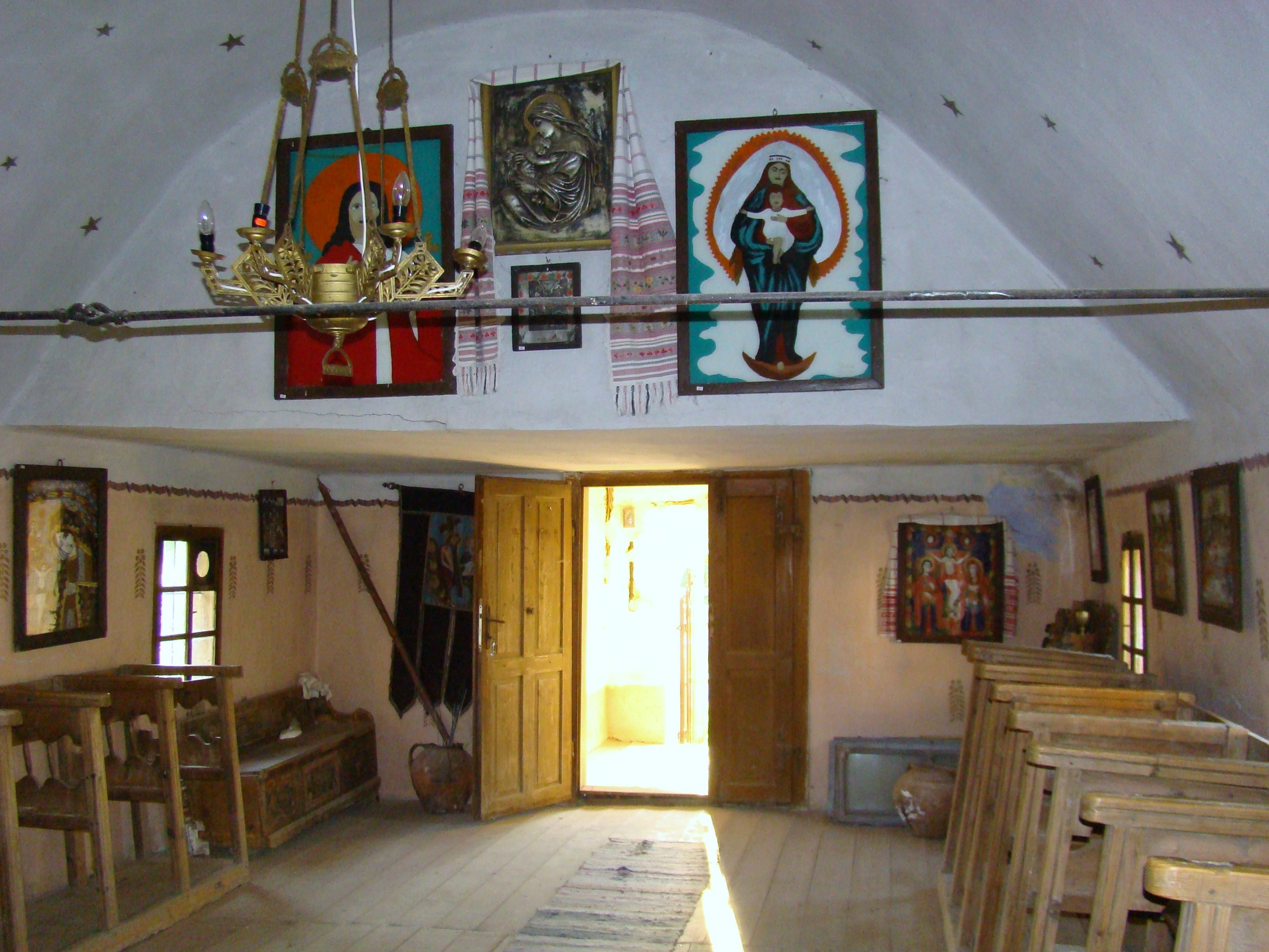 The wooden church in Săsăuș, Sibiu county, Romania